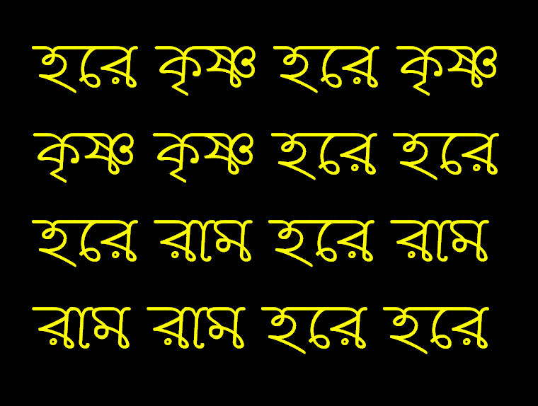 Hare Krishna Mahamantra in Bengali script